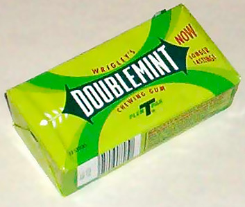 Doublemint gum Photo by User:Hephaestos 2/11/2004 placed in the public domain